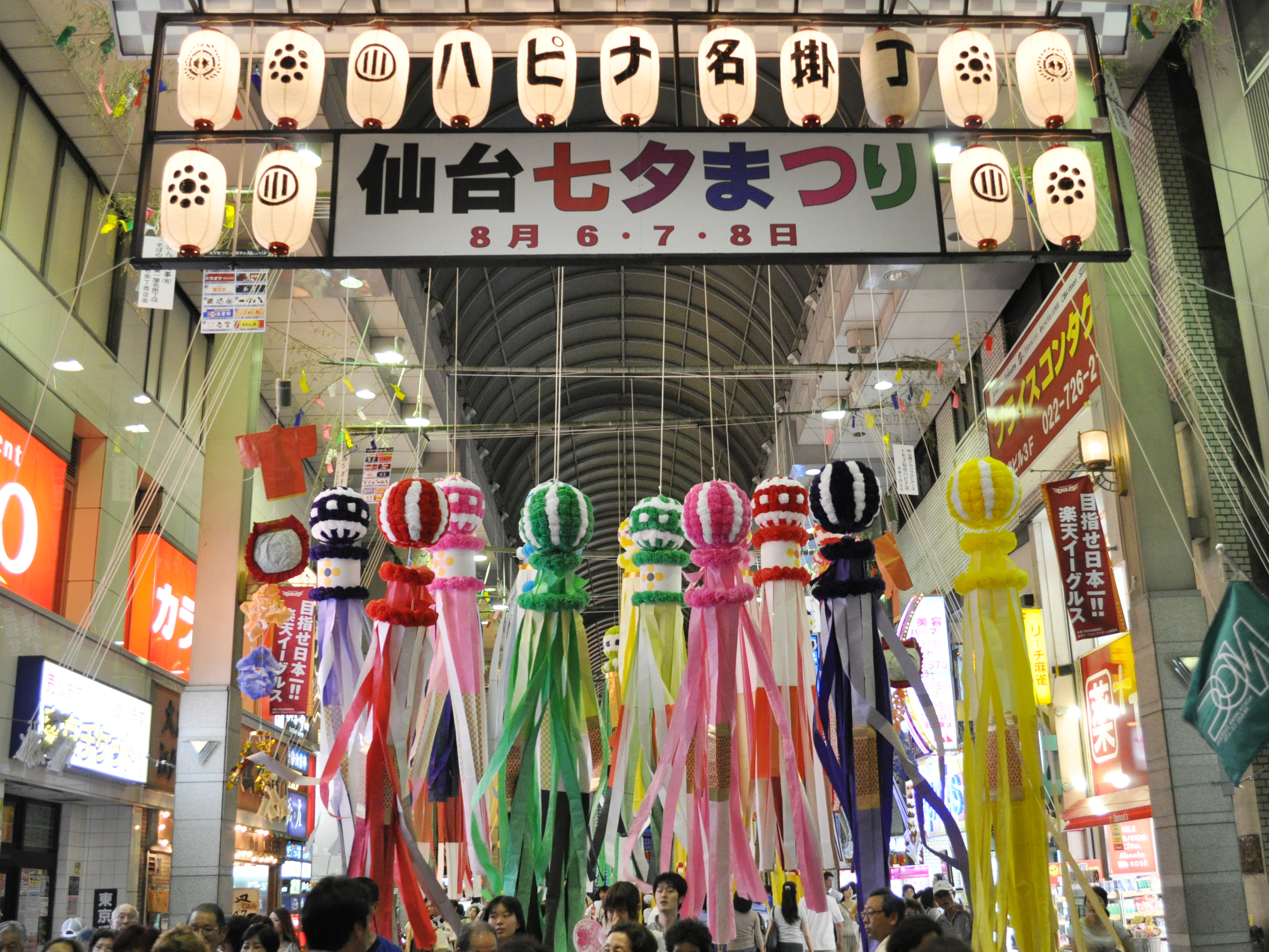 Sendai Tanabata Festival held in Sendai, Miyagi, Japan.